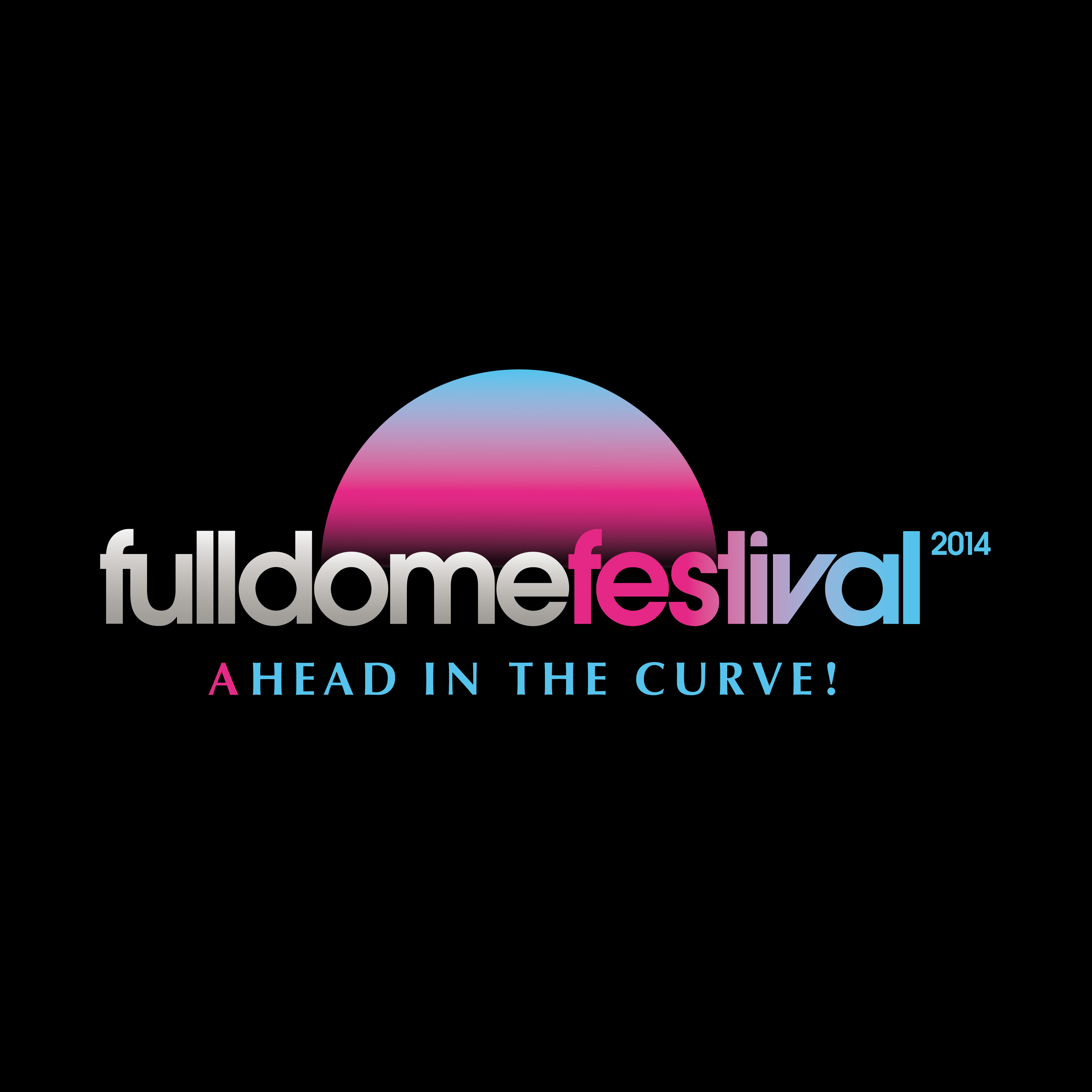 Jena FullDome Festival Logo for 2014